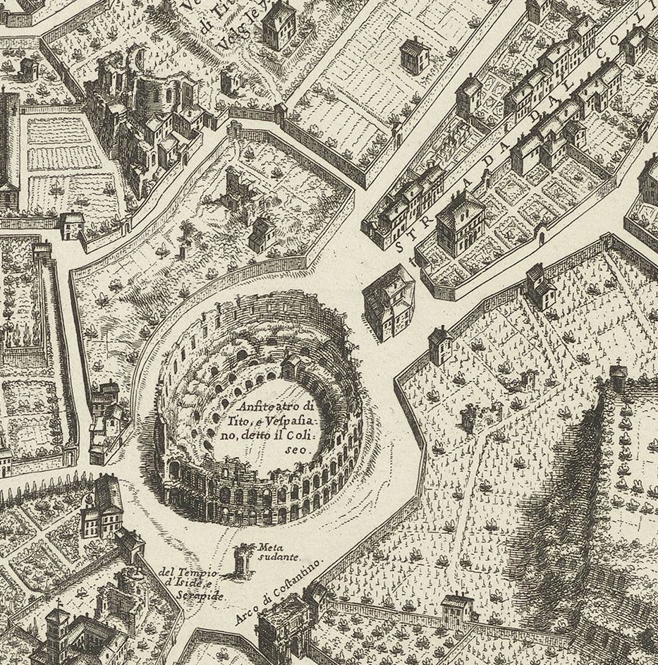 San Giacomo al Colosseo - Giovanni Battista Falda (1676)